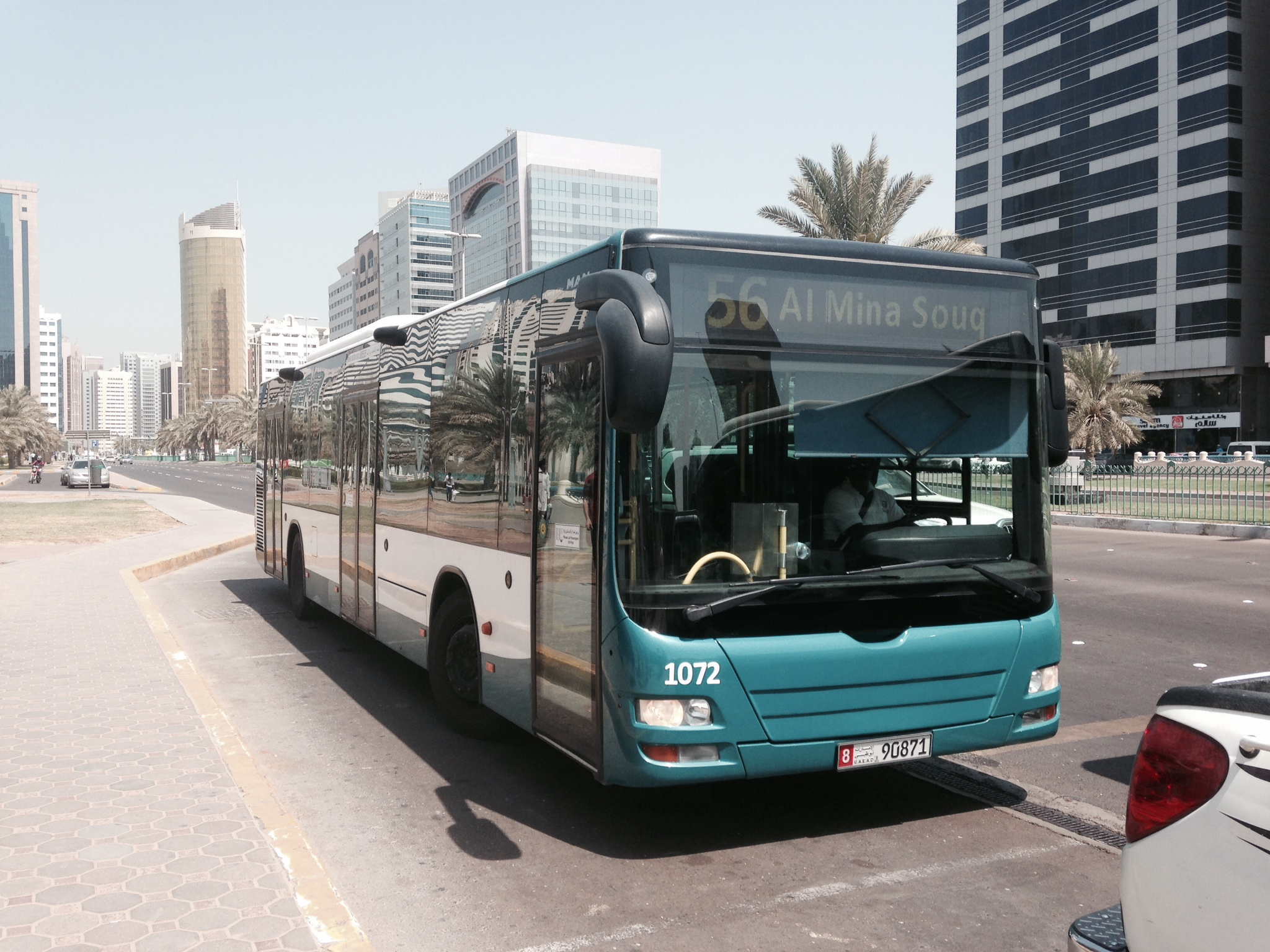 Abu Dhabi Bus Route Number 56